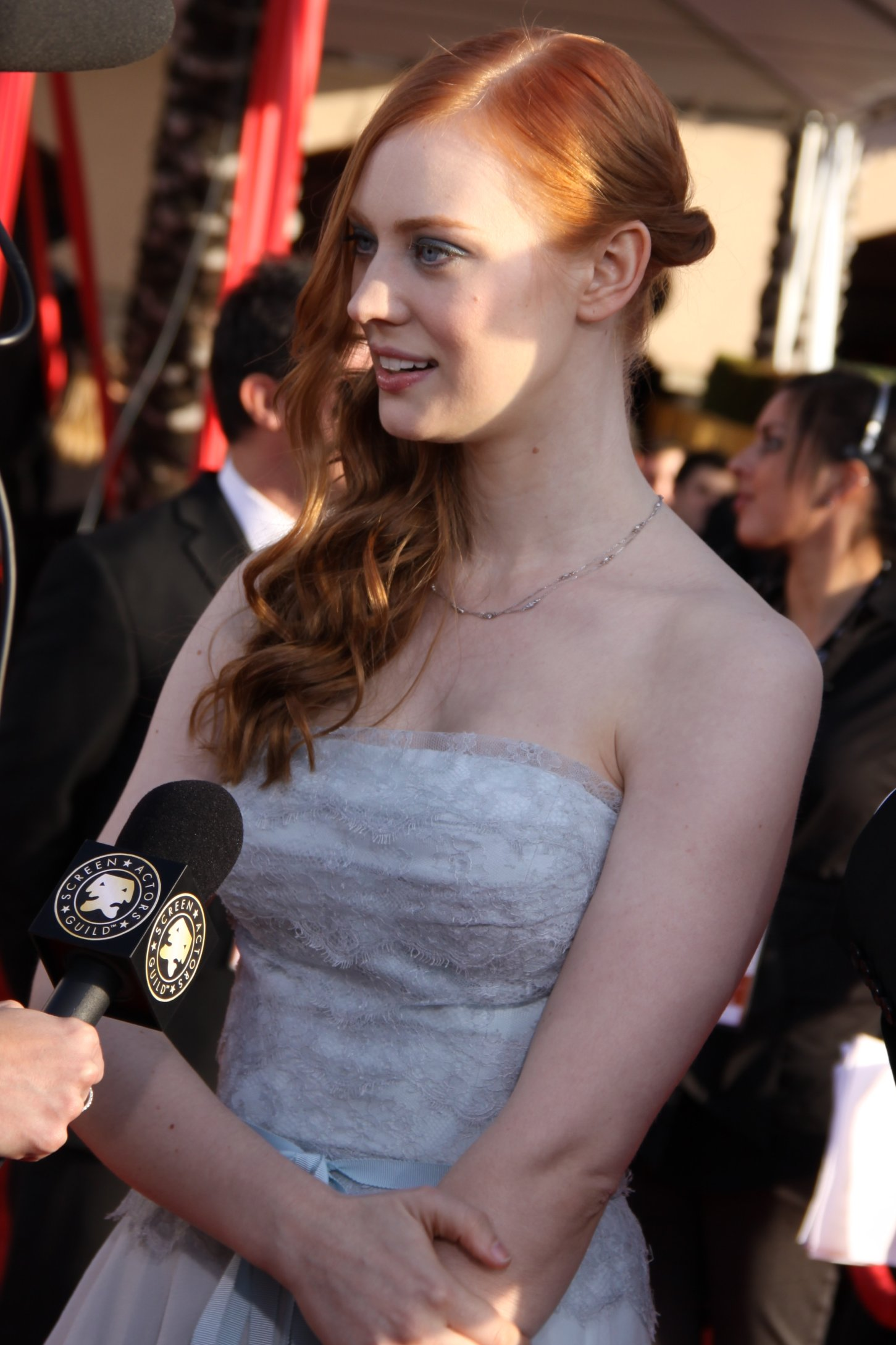 Deborah Ann Woll at the Screen Actors Guild Awards, Shrine Auditorium, Los Angeles on January 23rd, 2010.